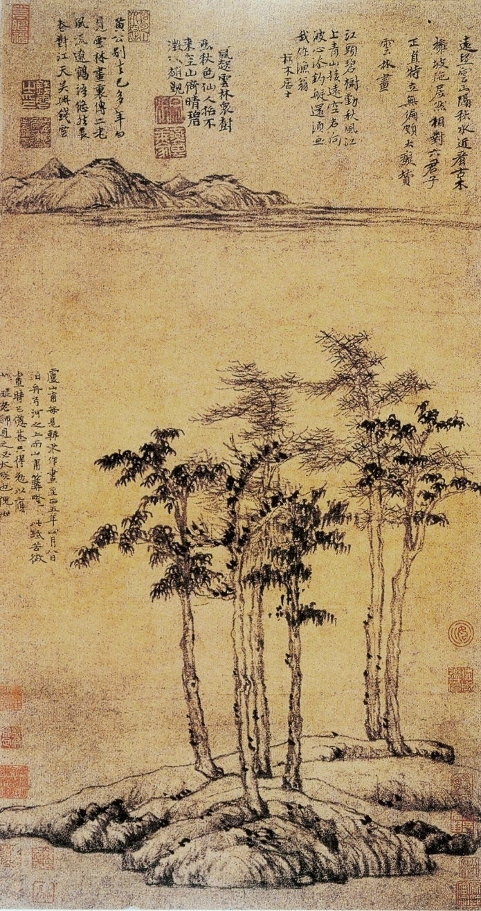 Ni Zan, Six Gentlemen, 1345, located at the Shanghai Museum.